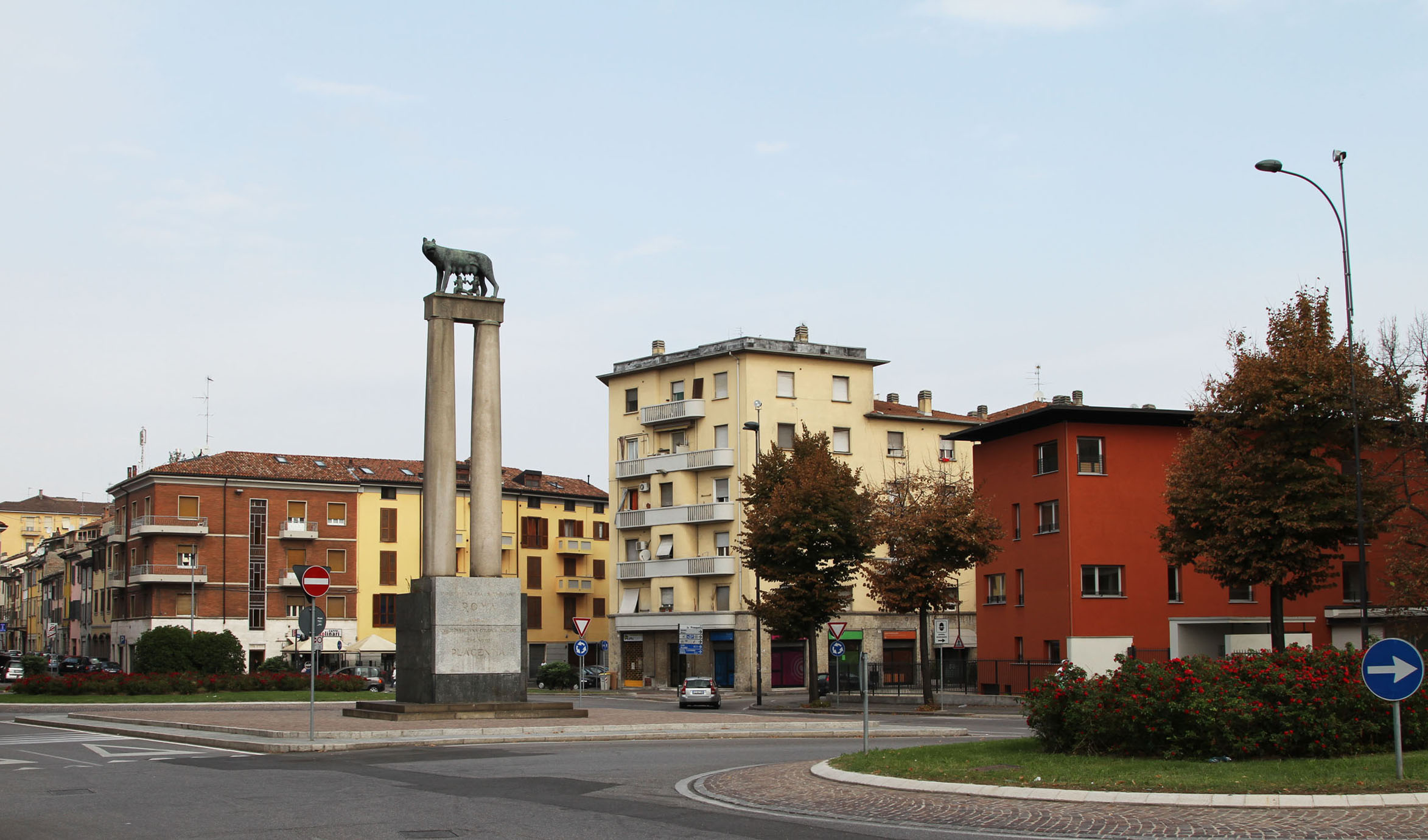 This is a photo of a monument which is part of cultural heritage of Italy.